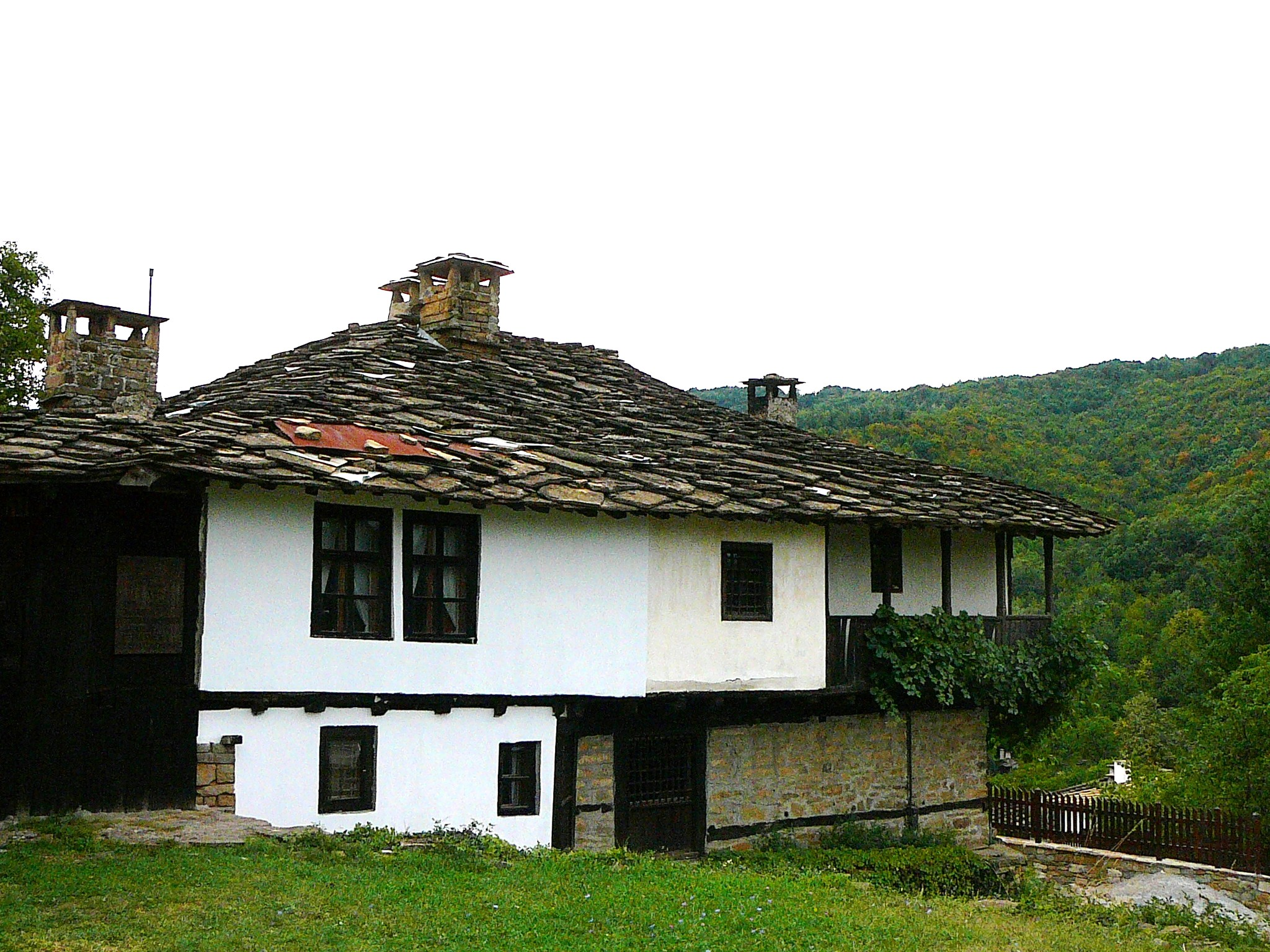 Bozhentsi, Bulgaria